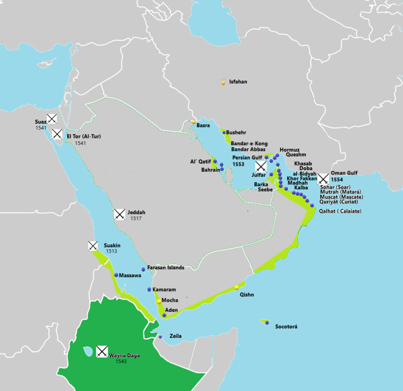 Portuguese in the Persian Gulf and Red Sea.Light Green - Terriories and cities. Dark Green - Allies or under influence. Yellow - Main Factorys.